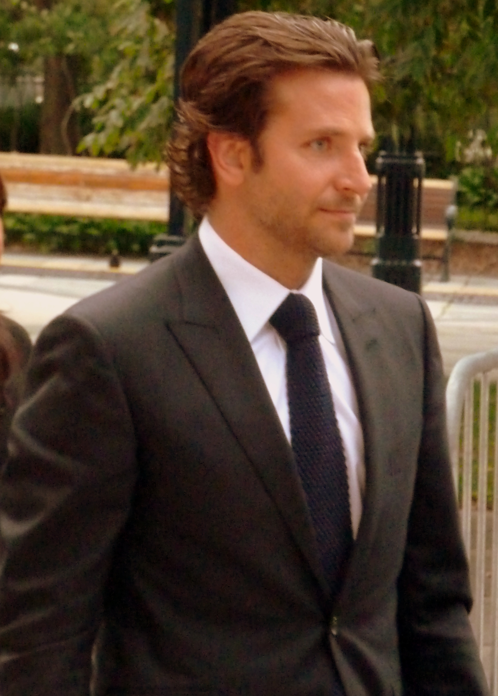 Bradley Cooper at the premiere of Silver Linings Playbook, In Toronto Film Festival 2012.